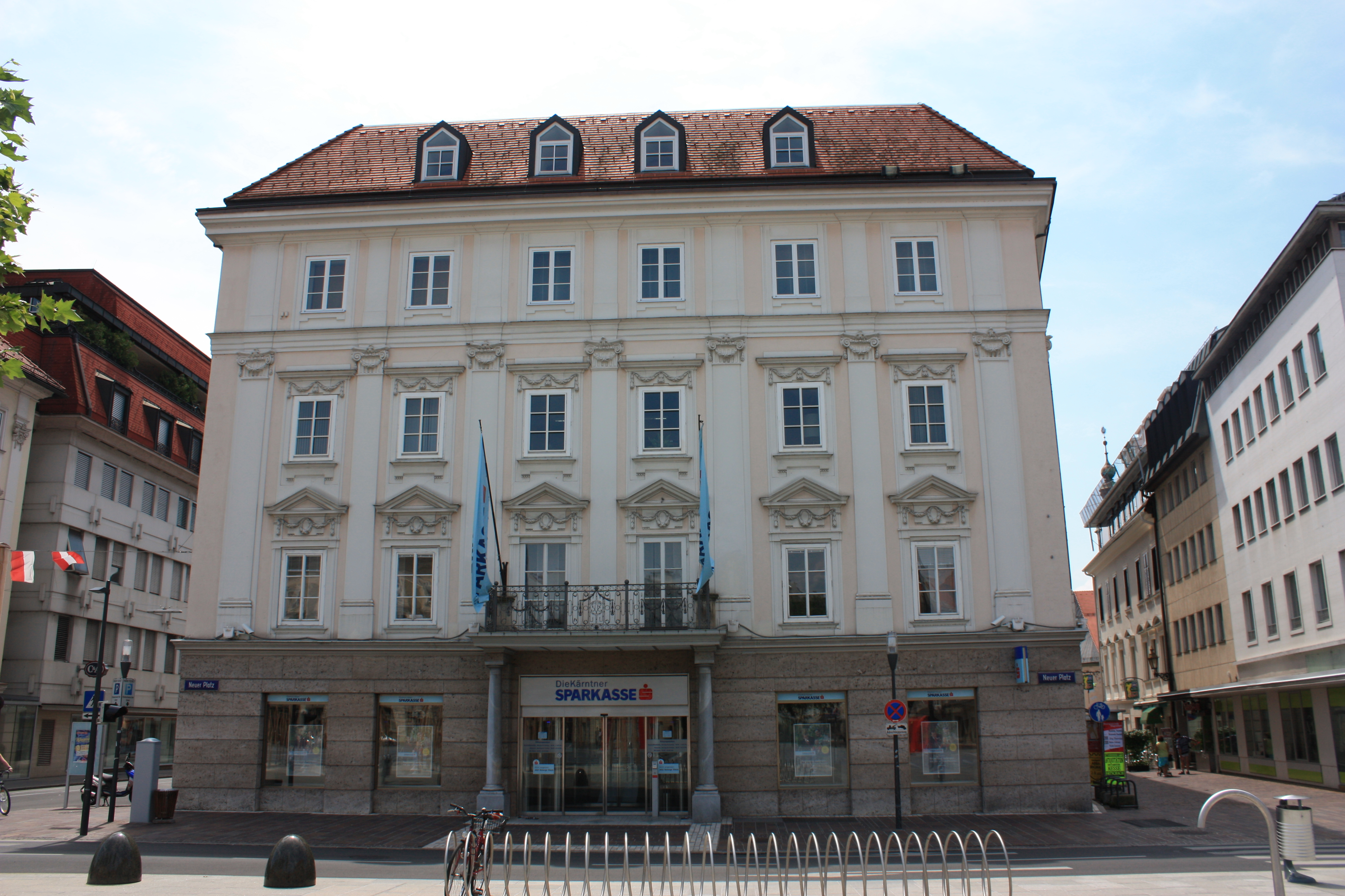 Building Neuer Platz 14 Locality: Neuer Platz Community:Klagenfurt